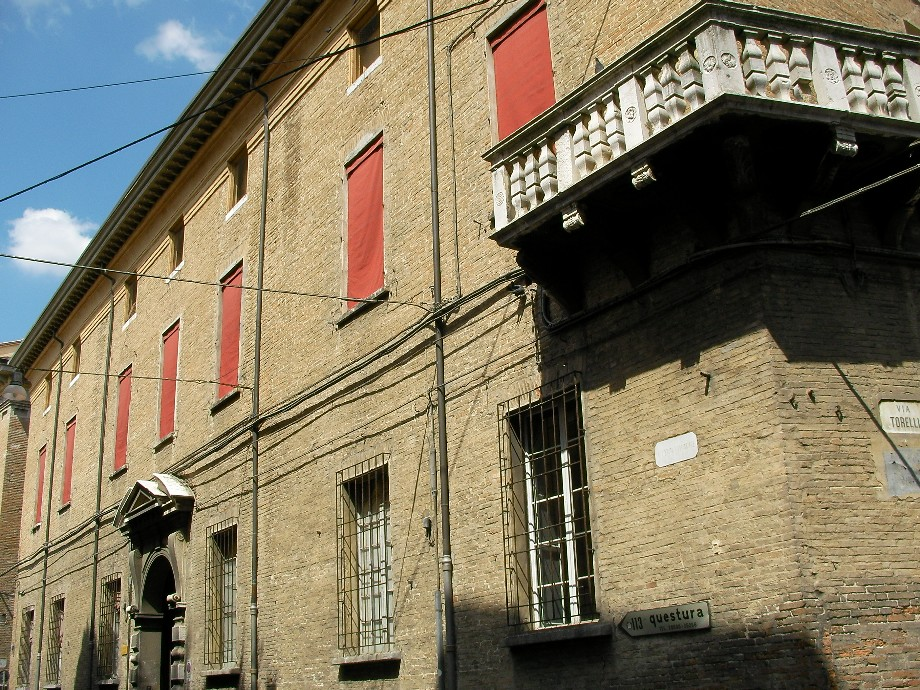 The outside of palace Guarini of Forlì